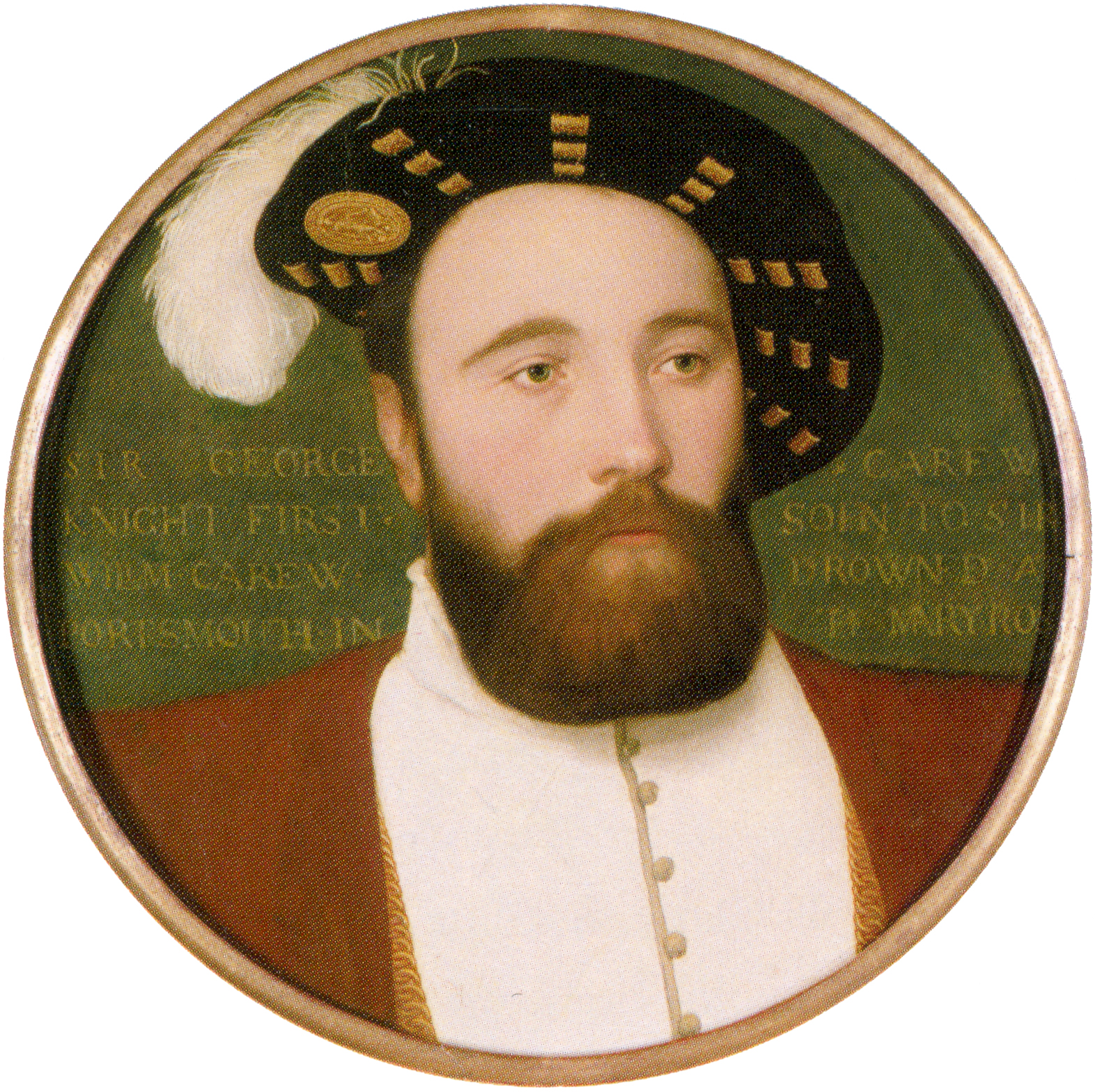 English admiral who died when the Mary Rose sank on July 19 1545.